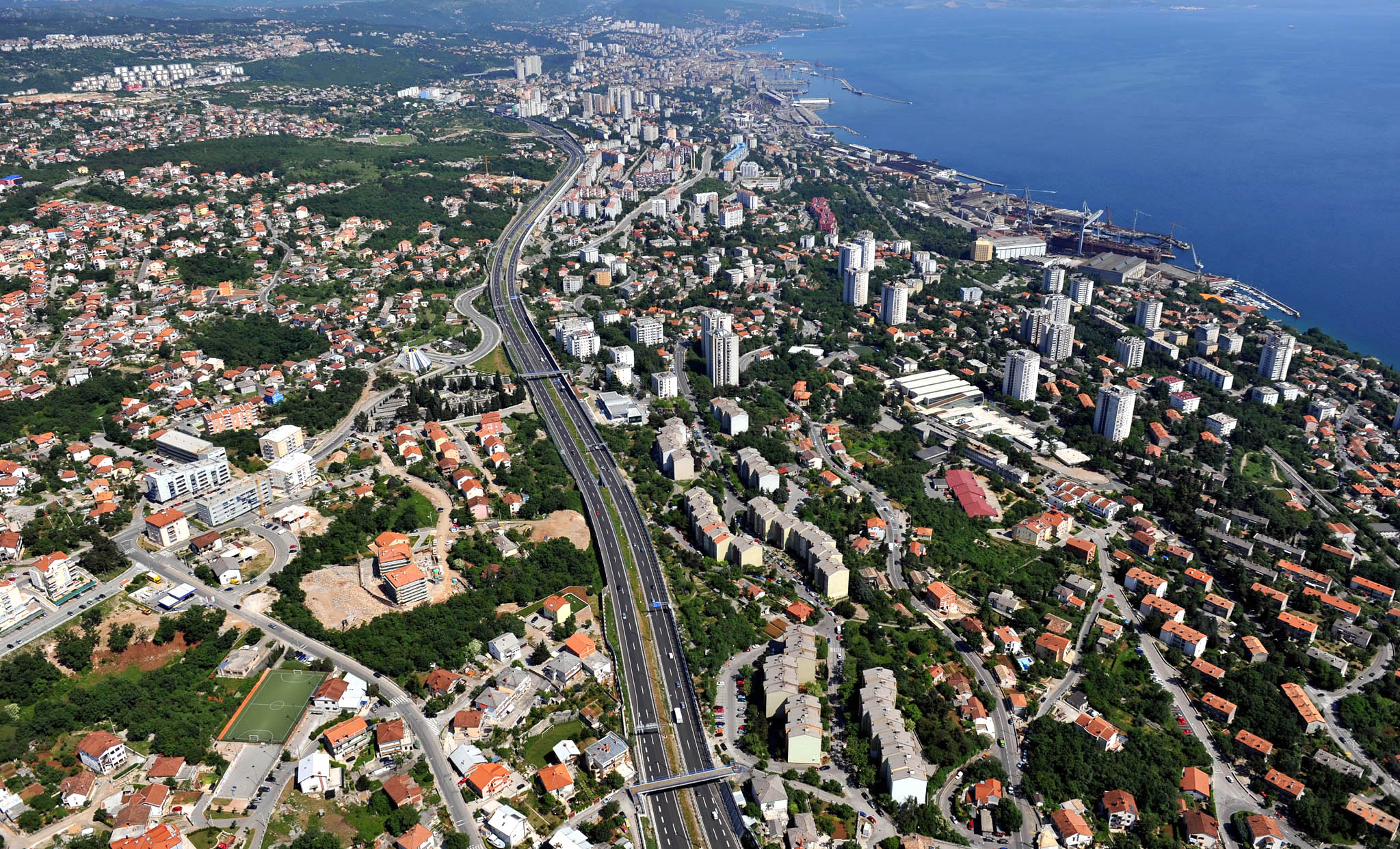 RIJEKA , ZAOBILAZNICA , GRBCI, ZAMET ,KANTRIDA , KUĆE ,STANOVI